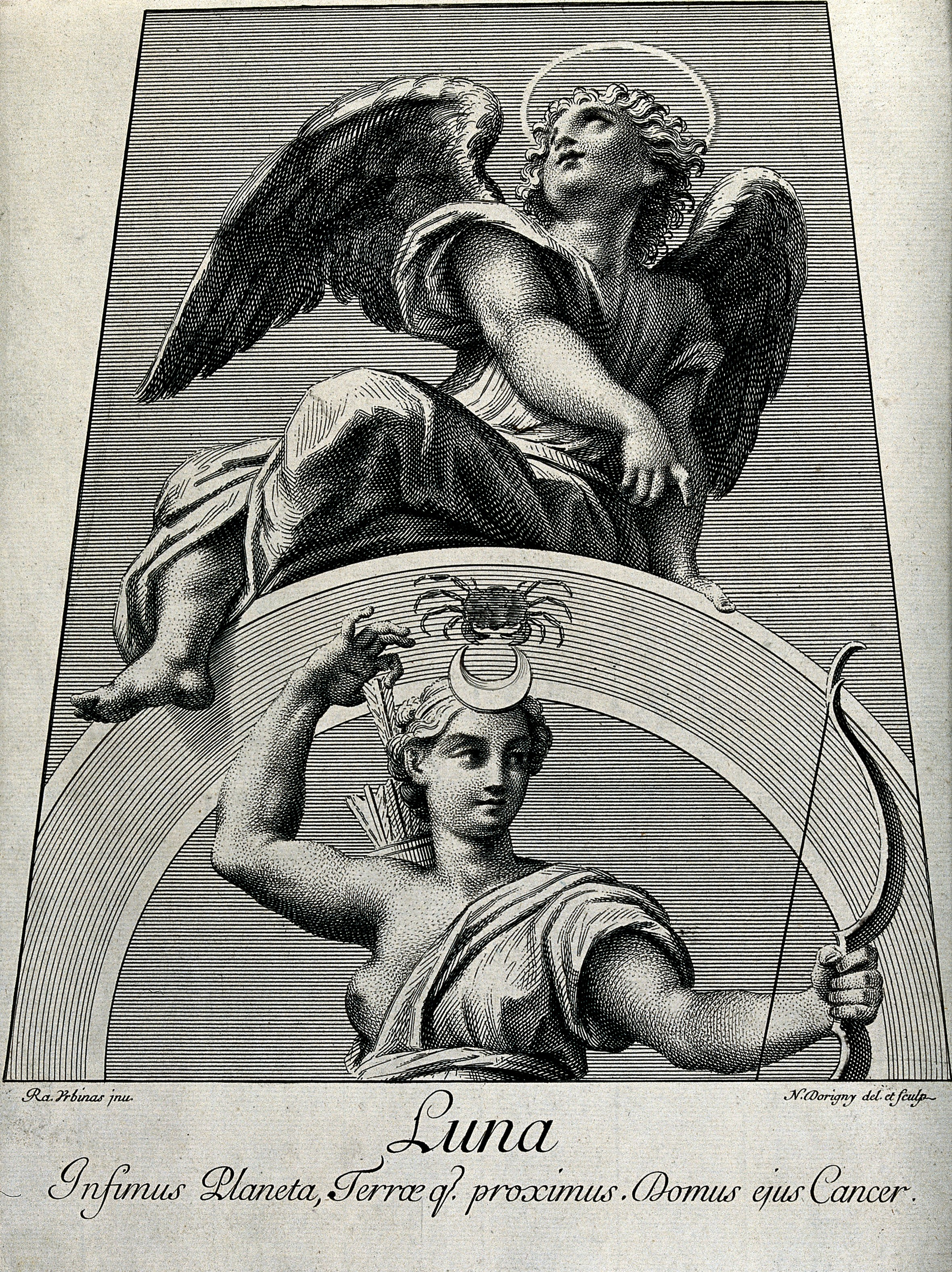 Astronomy: Diana, as Moon goddess, an angel above looking heavenward. Engraving by N. Dorigny, 1695, after a mosaic panel by Raphael in the Chigi Chapel, Santa Maria del Popolo, 1516. Iconographic Collections Keywords: Diana; Raphael; Nicolas Dorigny